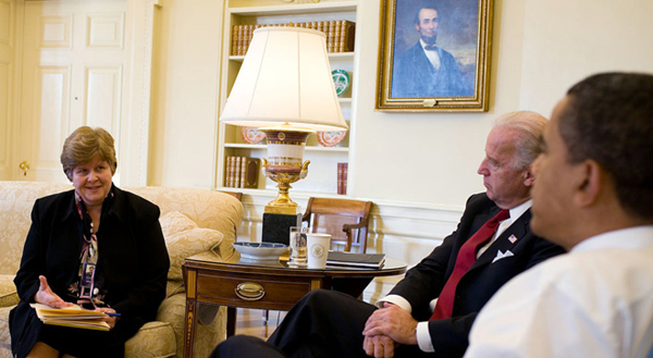 Dr. Christina Romer meets with President Barack Obama and Vice President Joe Biden in the Oval Office on Jan. 30, 2009 for the Presidential Daily Briefing.